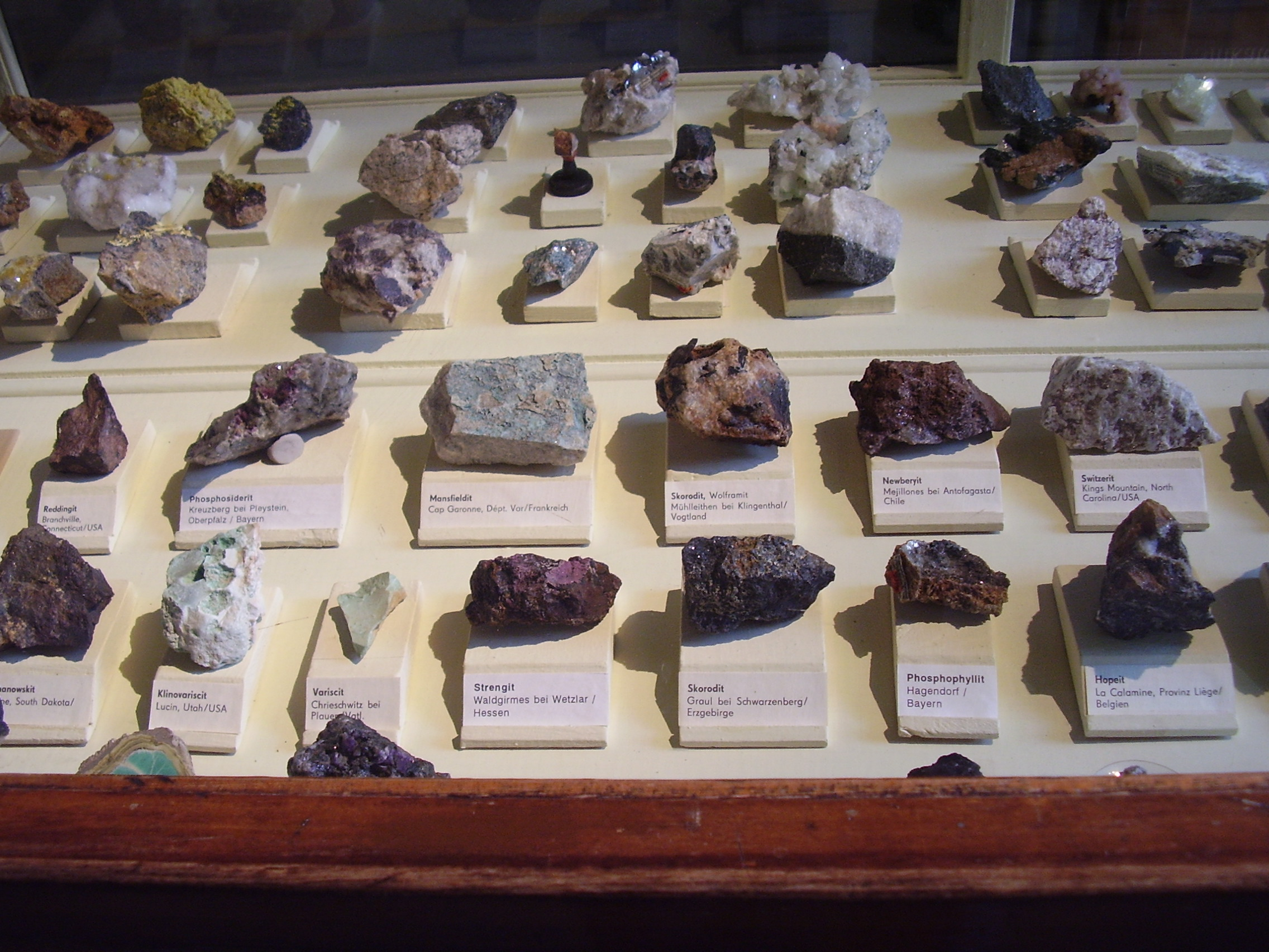 Berlin Museum of Natural History